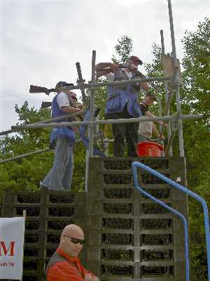 skeet shooting